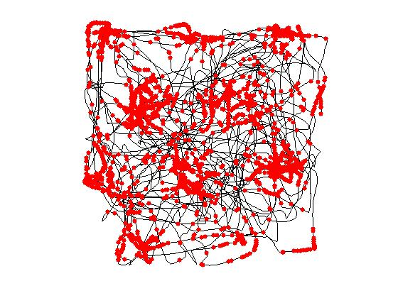 Activity of a grid cell in rat hippocampus